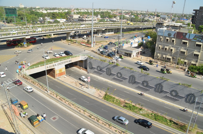 Kamla Underpass Photo